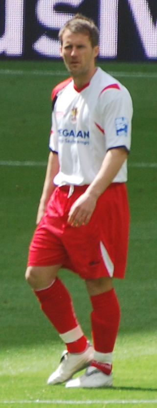 Lee Boylan. Image cropped from original at flickr.